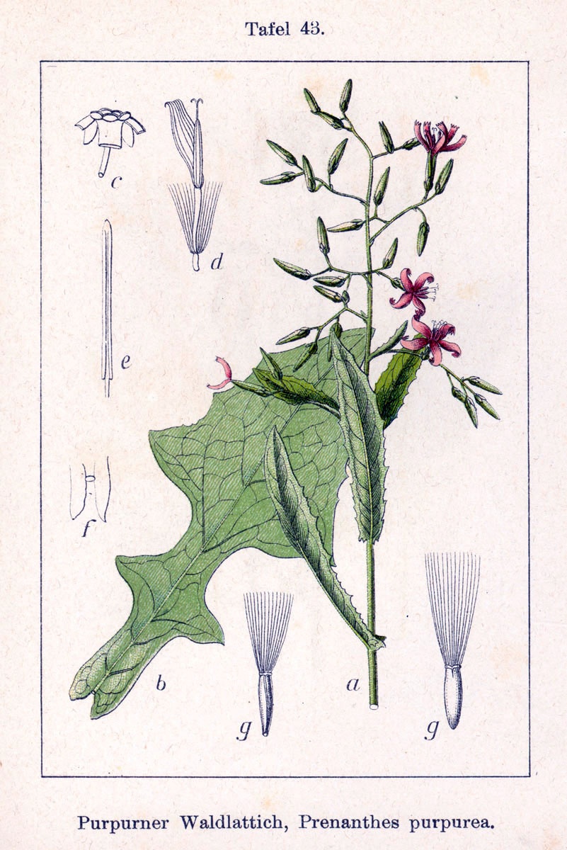 Prenanthes purpurea L. Original Description "Purpurner Waldlattich", Prenanthes purpurea